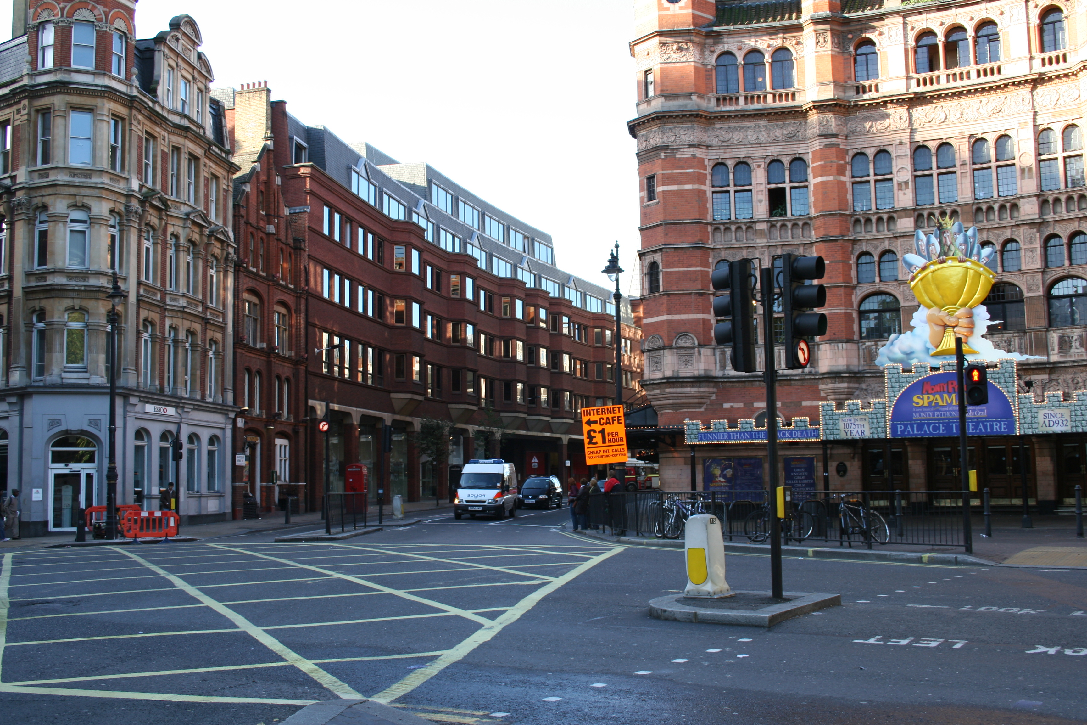 A view of Cambridge Circus in London